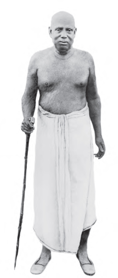 Swami Advaitananda, a direct disciple of Ramakrishna Paramahamsa